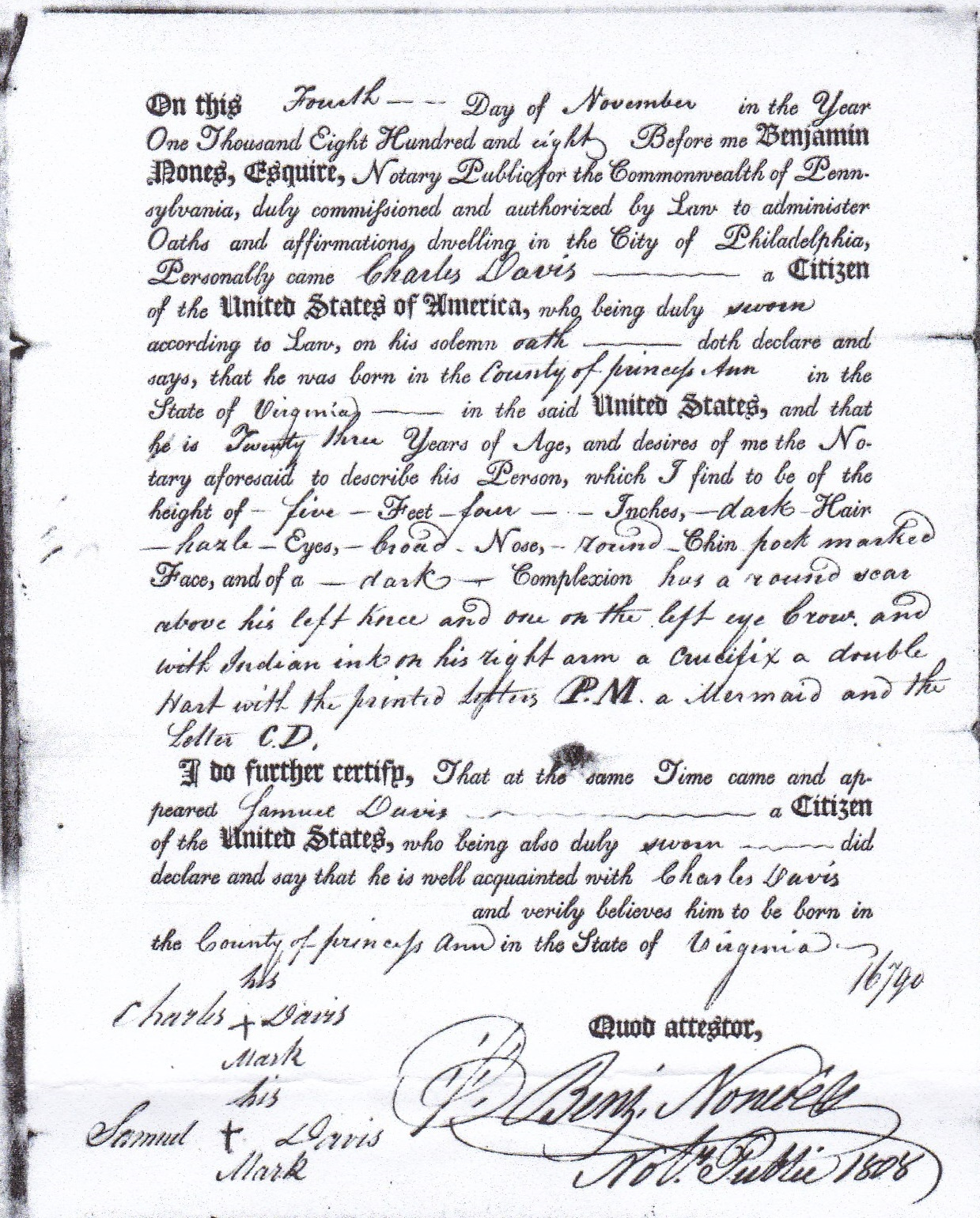 Protection certificate issued at Philadelphia Pa., to Charles Davis on 4 Nov 1804. Davis born Princess Ann County Va, age 23, 5' 4 inches tall dark hair hazel eyes pox marked in India Ink a crucifix and double heart with PM a mermaid & CD